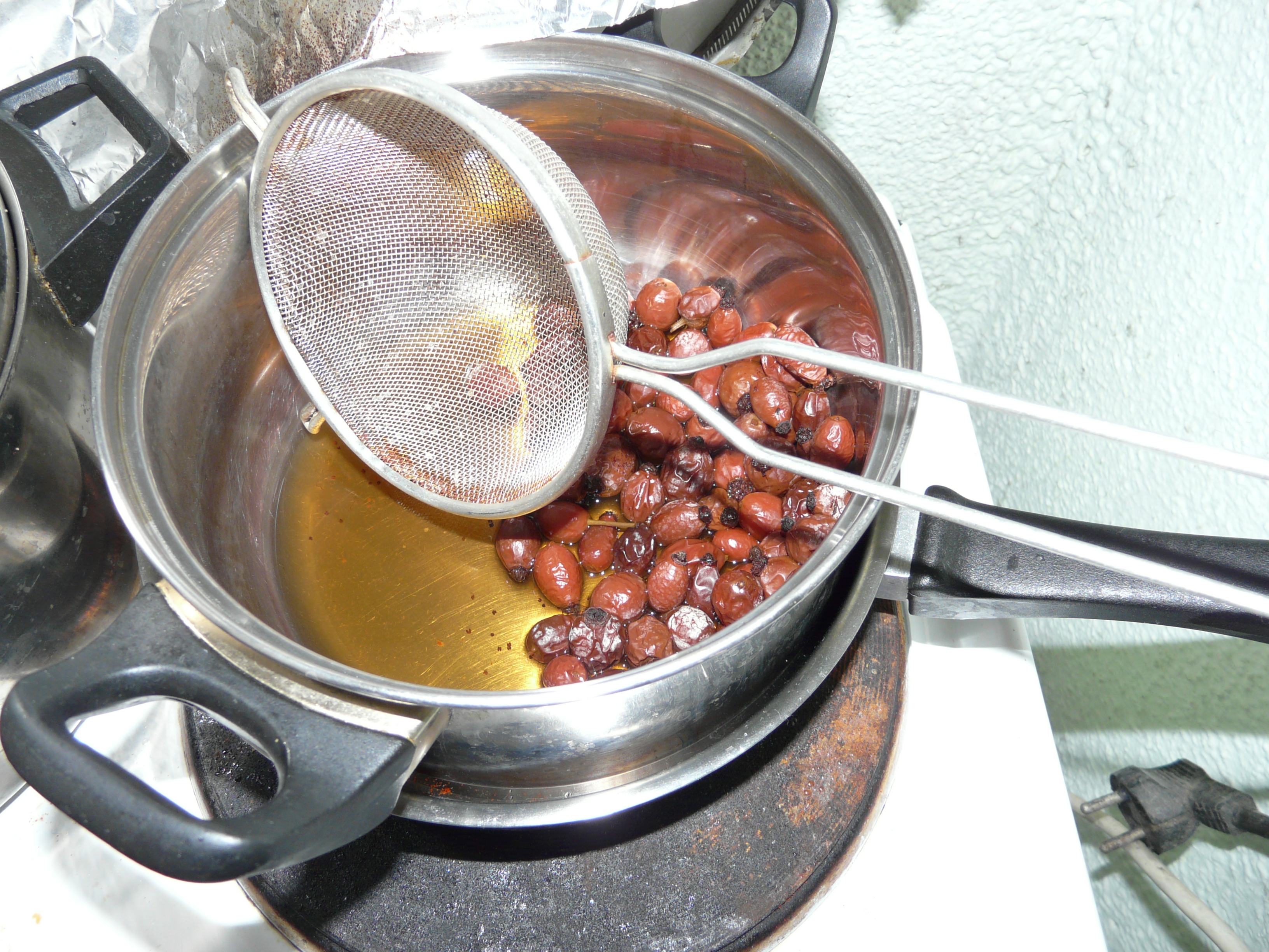 Hip Tea